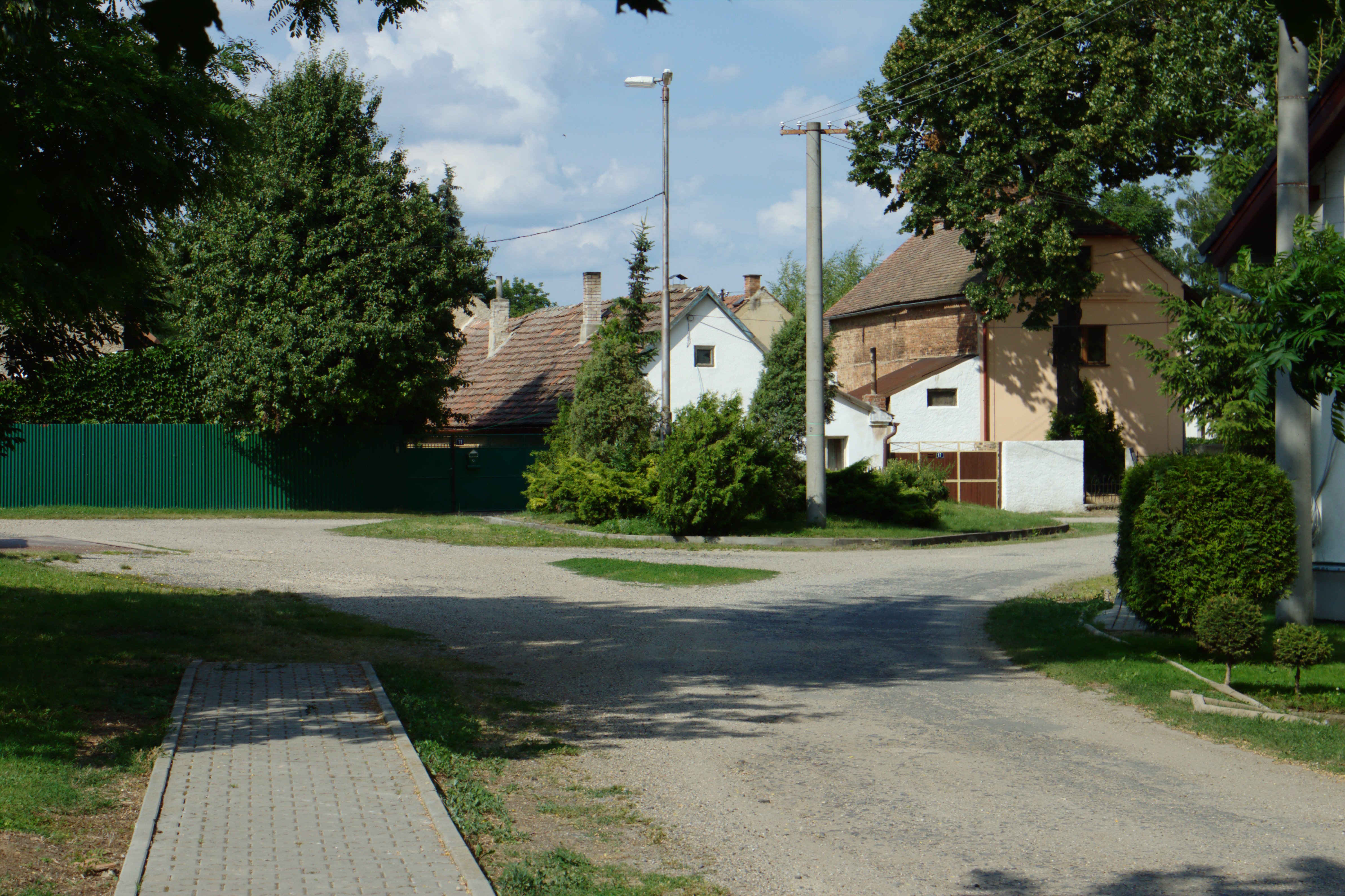 A crossroad near the center of the town of Loucká, Central Bohemian Region, CZ